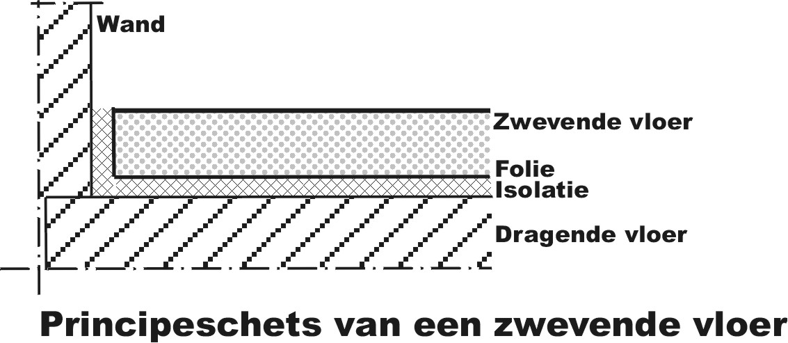 Sketch of a floating floor.